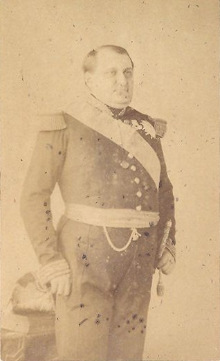 Carte de visite of Napoléon Joseph Charles Paul Bonaparte